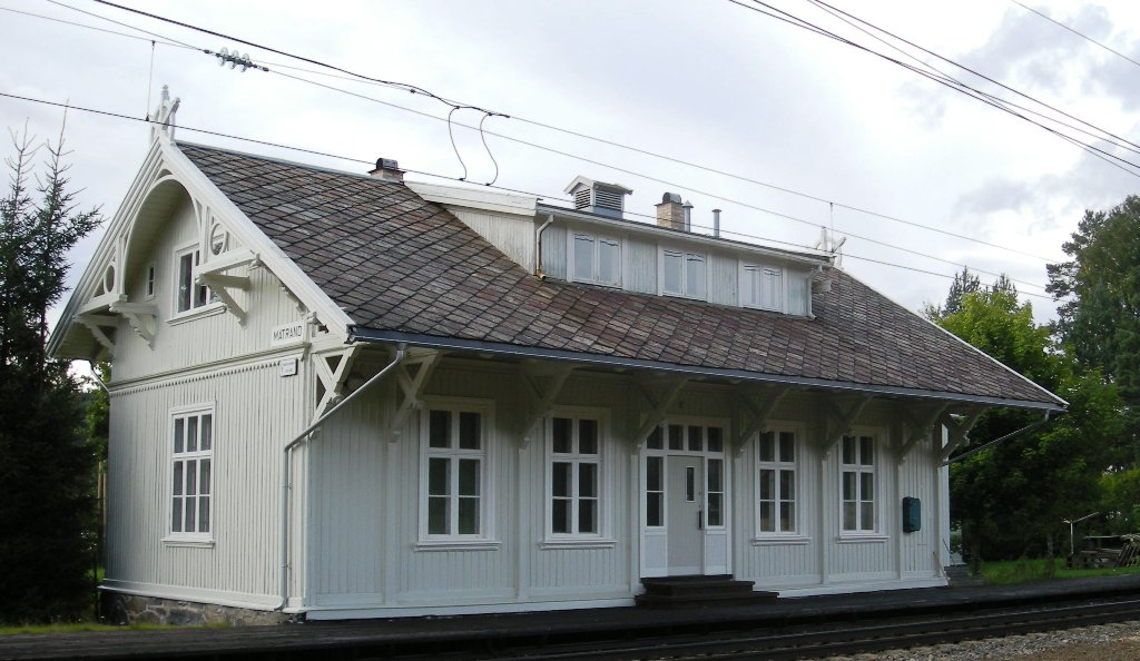 Matrand station on the Kongsvinger line (Norway)